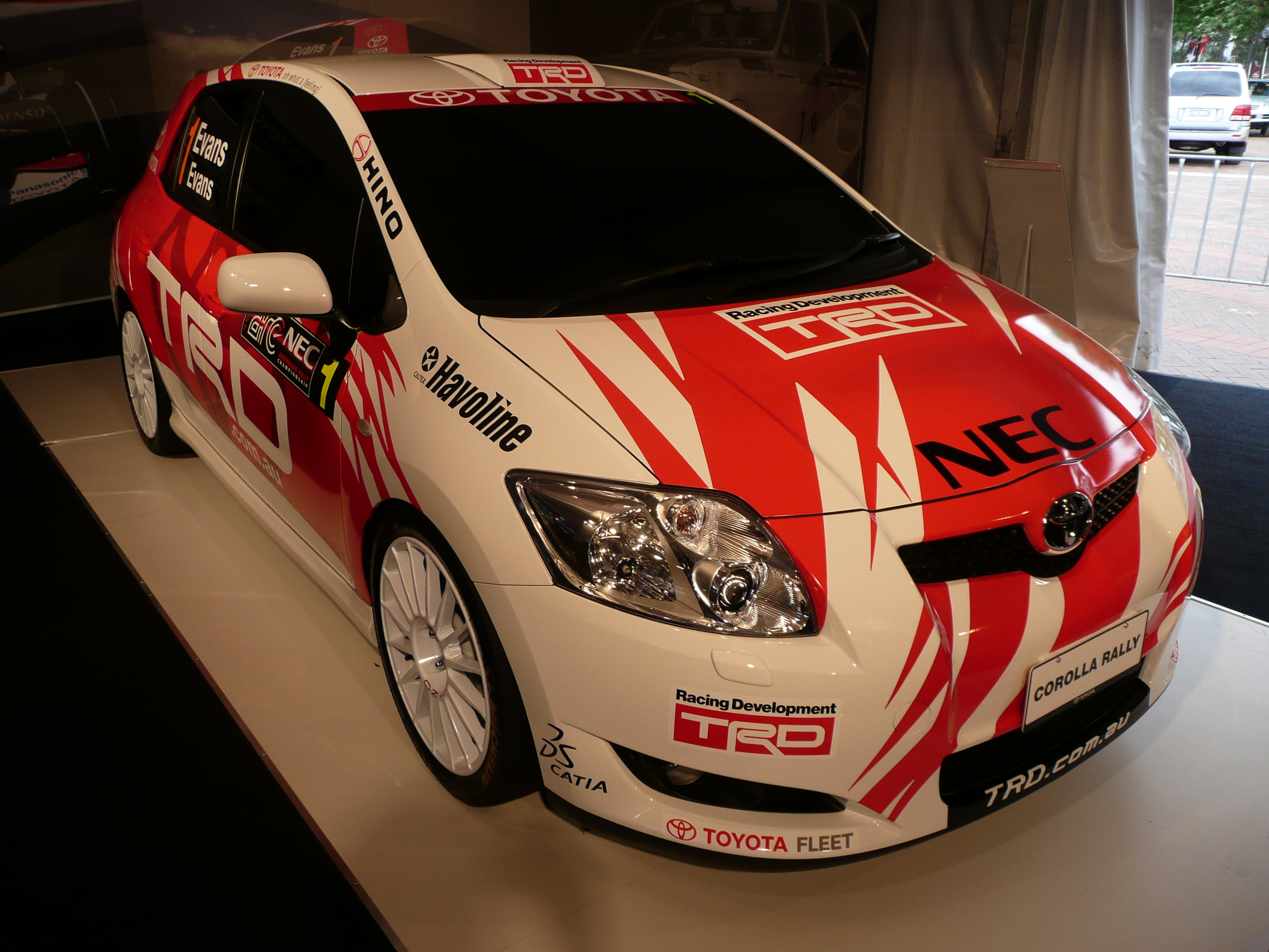 2007 Toyota Corolla S2000 5-door hatchback. Photographed at the 2007 Australian International Motor Show, Sydney, New South Wales, Australia.